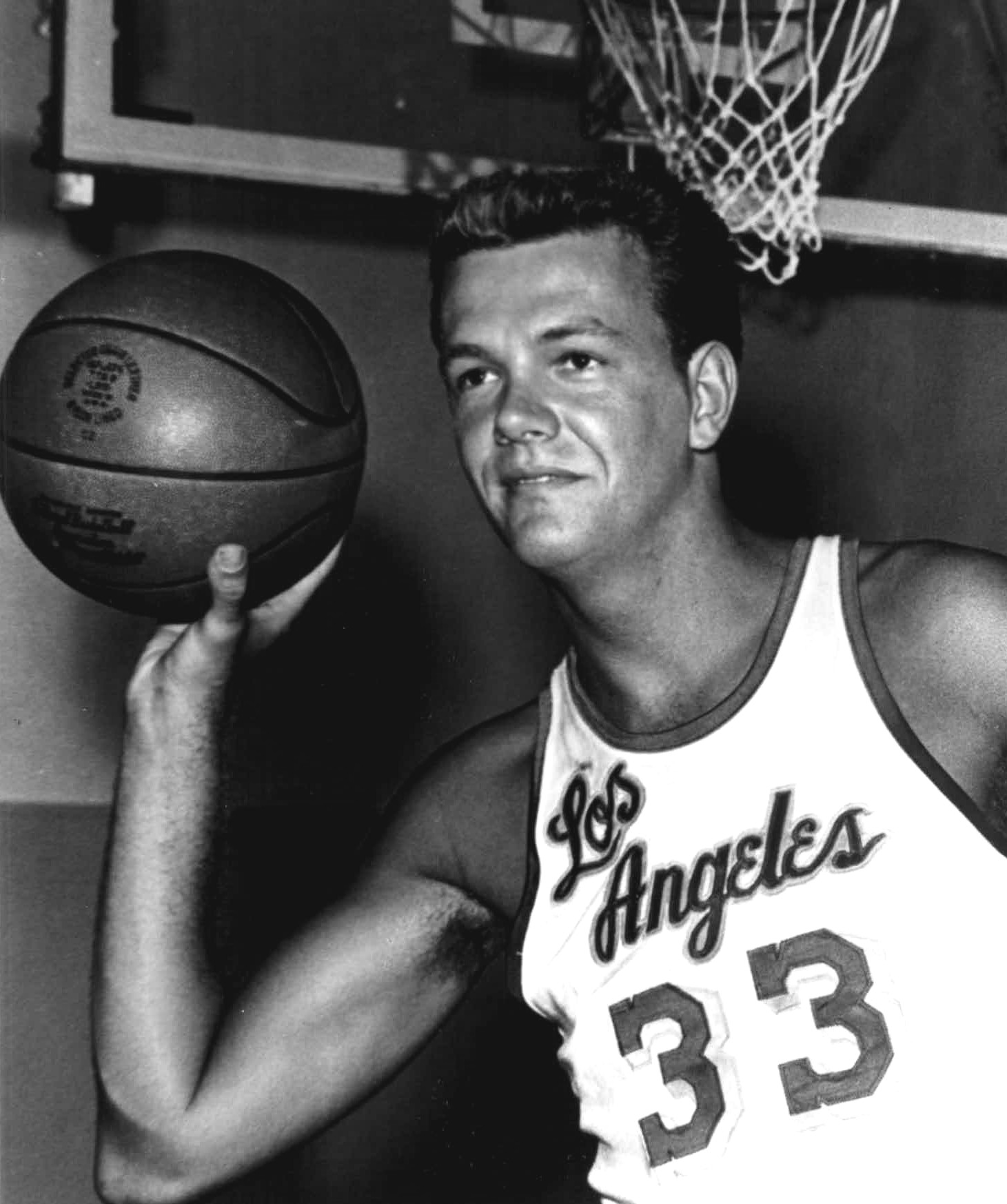 Professional basketball player Rod Hundley